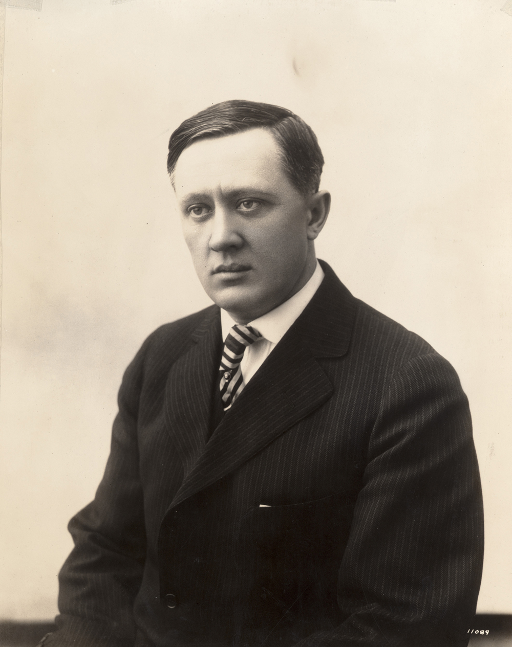 Portrait of William S. Harley, mechanical engineer and co-founder of Harley-Davidson Motor Company.